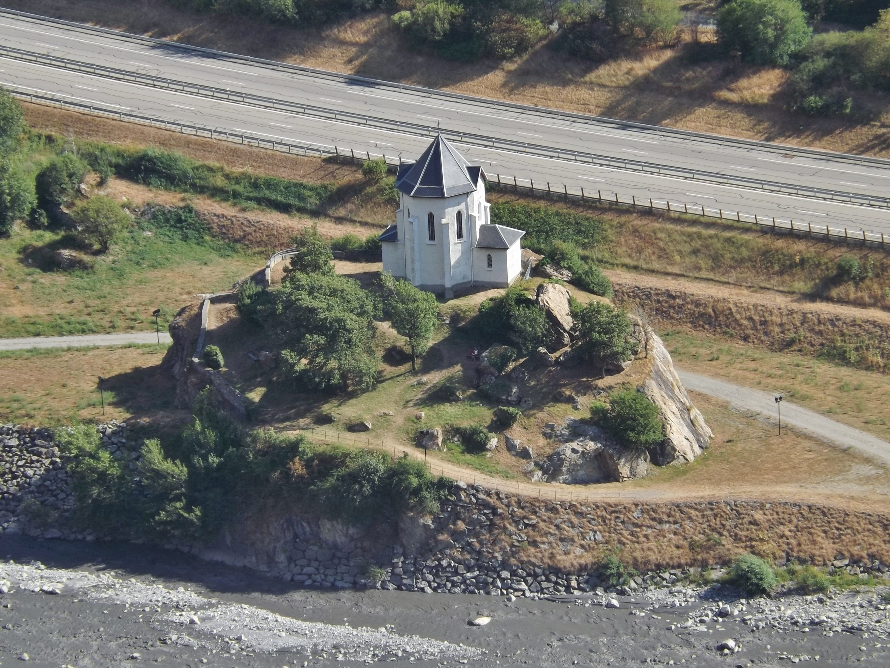 Sight of the chapelle de l'Immaculée Conception chapel of Pontamafrey, seen from the chapelle de la Balme chapel of Montvernier, in Savoie, France.